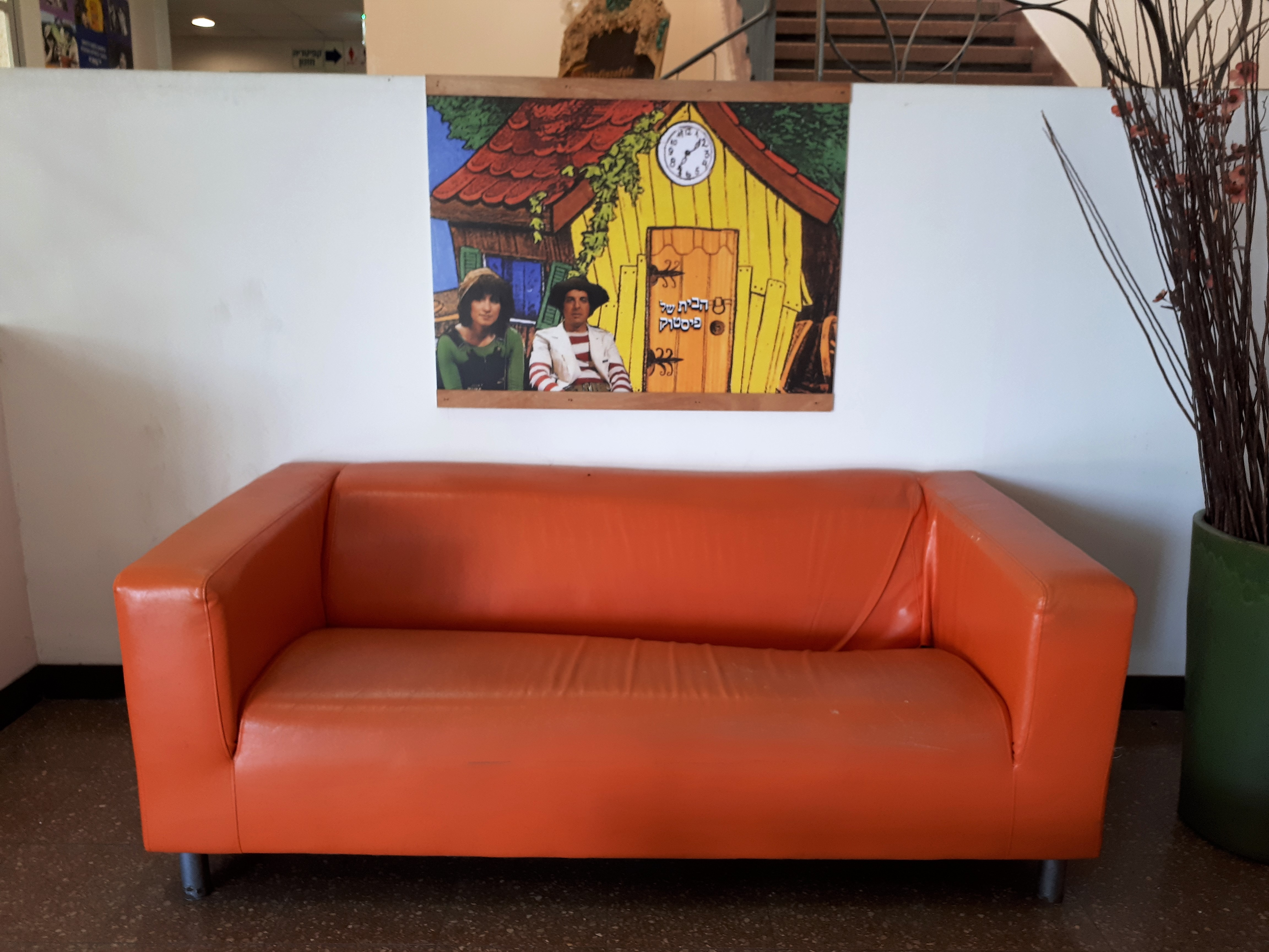 Inside the IETV building. Tel aviv, April 2018